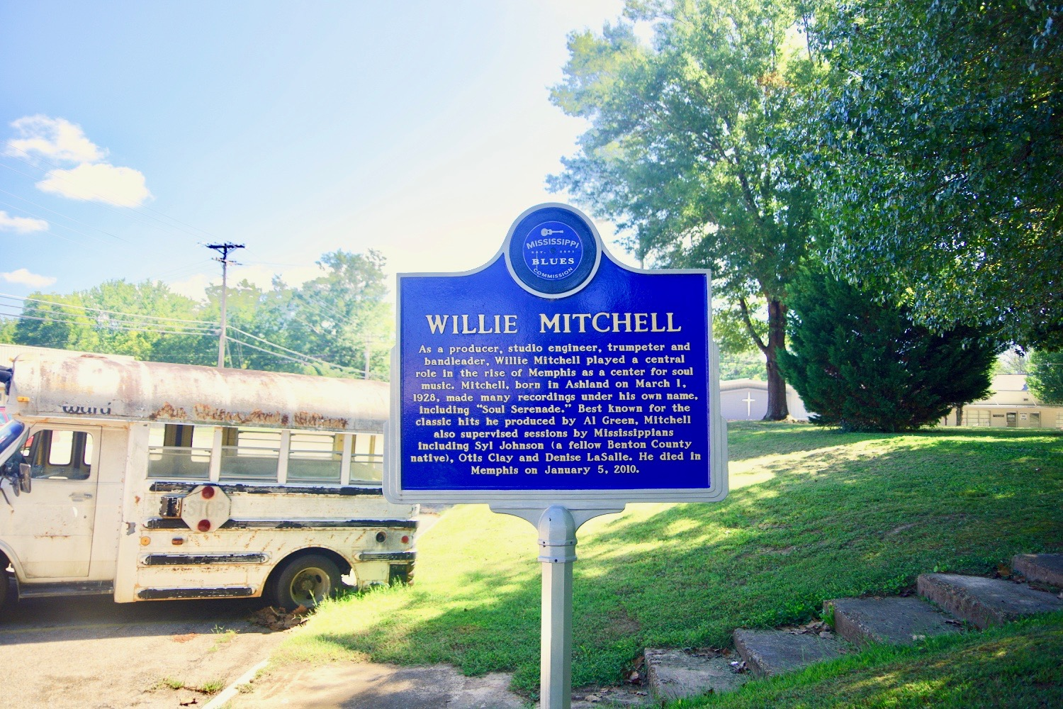 Mississippi Blues Commission marker dedicated to bandleader and producer Willie Mitchell (1928–2010) in Ashland, Mississippi, United States.